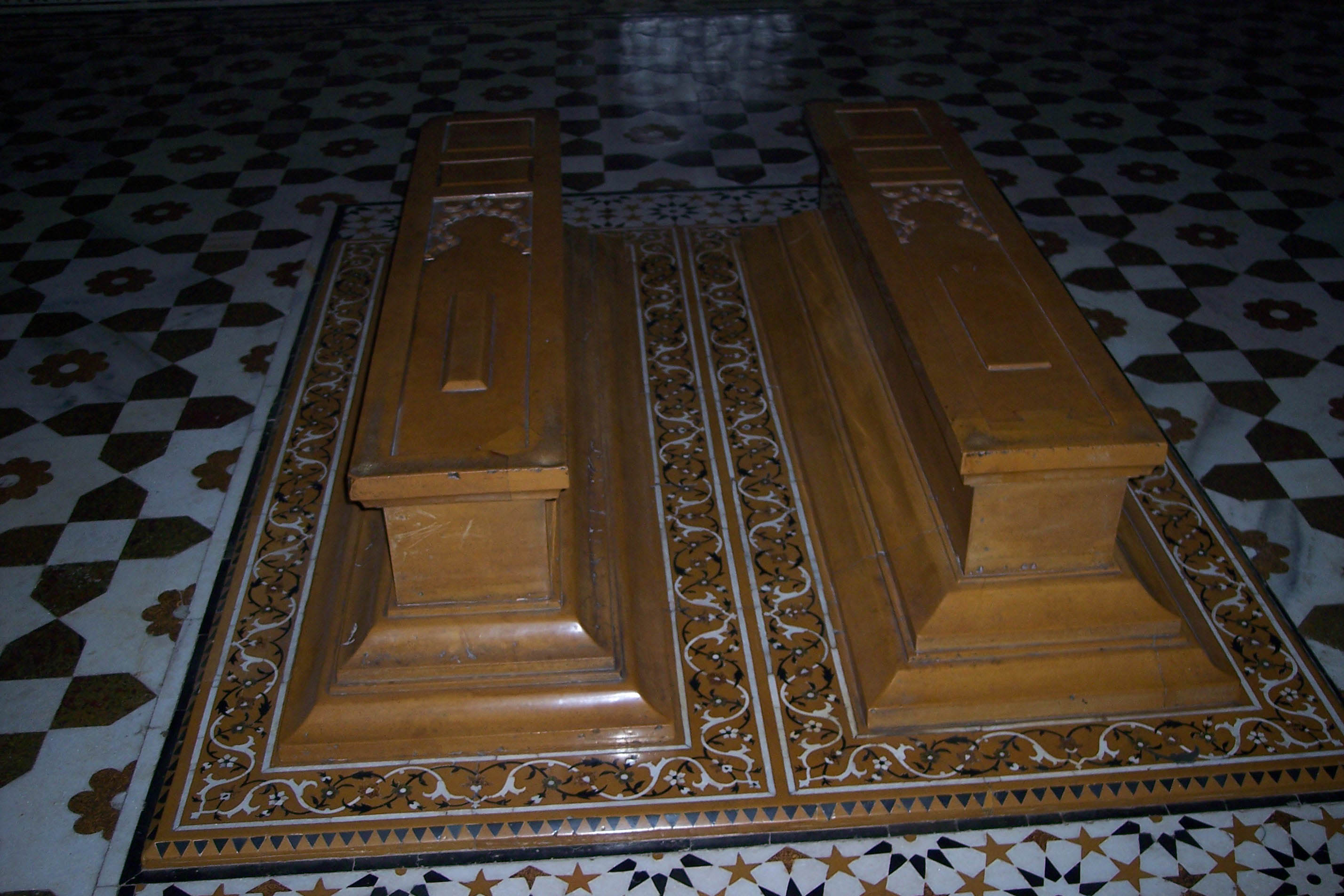 Itimad-ud-Daula Tombs, Agra, India 2011